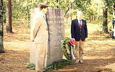 Camden Battlefield Marker (Kershaw County, South Carolina) - cropped This image or media file contains material based on a work of a National Park Service employee, created as part of that person's official duties. As a work of the U.S. federal government, such work is in the public domain in the United States. See the NPS website and NPS copyright policy for more information. Object location34° 20′ 47″ N, 80° 36′ 27″ W